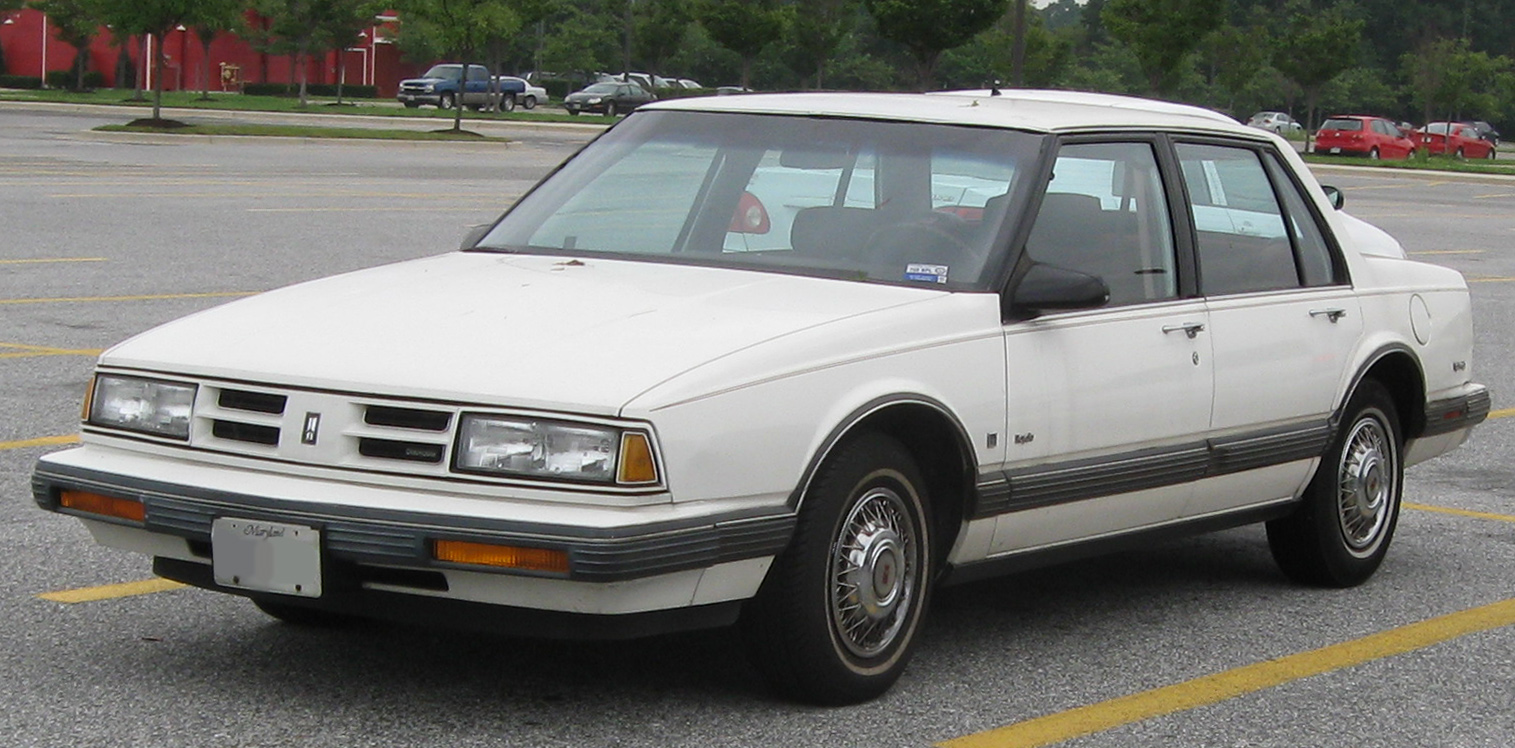 1990-1991 Oldsmobile Eighty-Eight Royale photographed in Laurel, Maryland, USA.